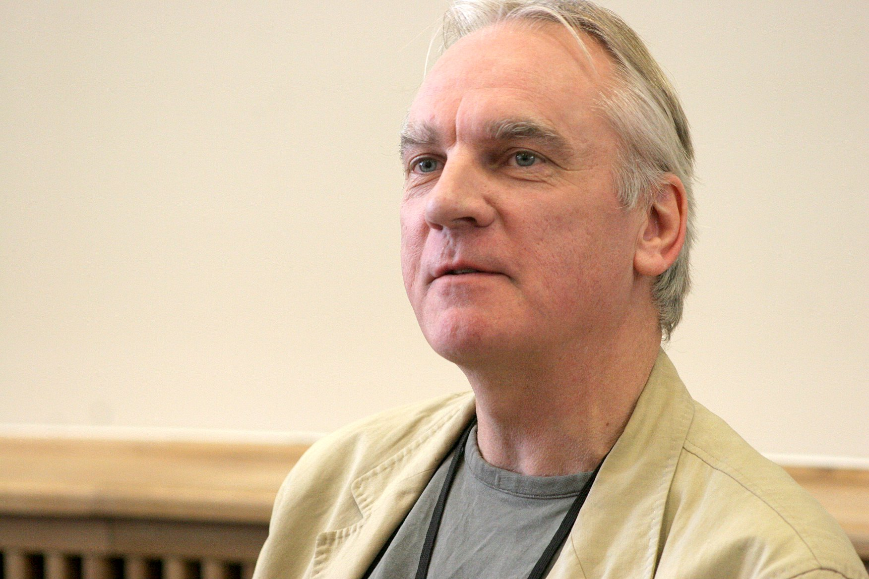 Andrew Dobson, British academic, environmentalist and Green Party politician, at the Newcastle-under-Lyme Young Voters Question Time at Newcastle-under-Lyme College.